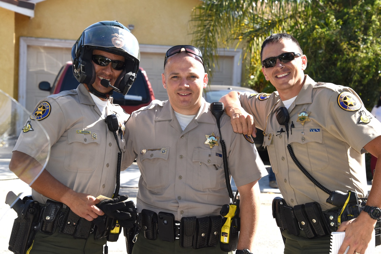 Ventura County Sheriff's Office deputies in 2015